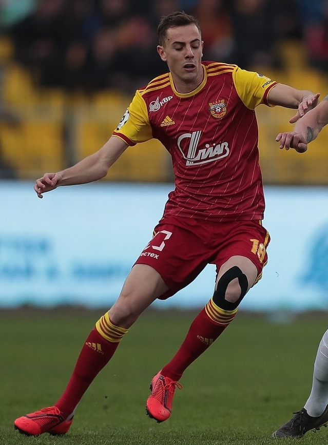 Luka Đorđević with FC Arsenal Tula in a game against FC Lokomotiv Moscow.